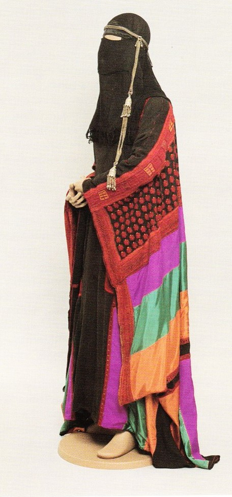 Traditional woman's clothing in the Najd region of Saudi Arabia